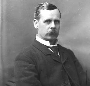 James Livingstone, M.P., (Waterloo S. Ont.)